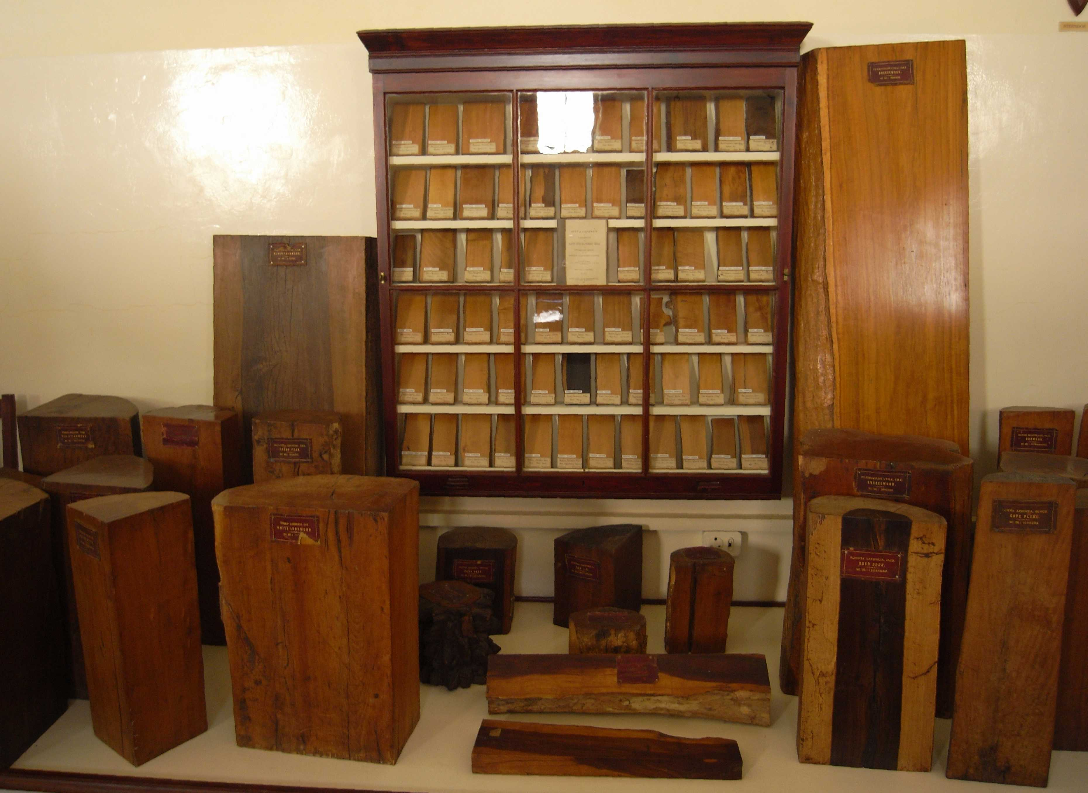 Albany Museum Grahamstown (RSA), wood collection